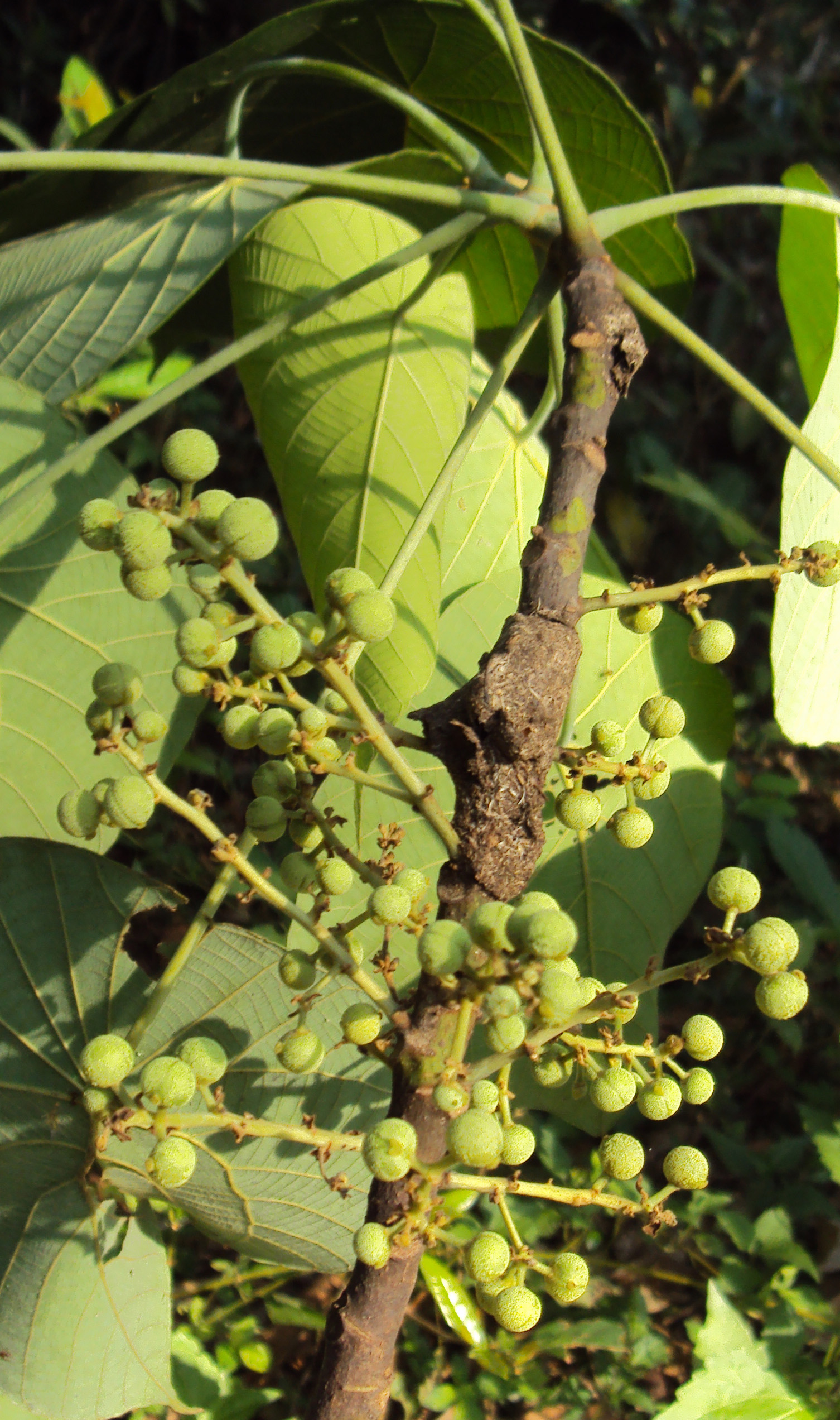 Macaranga peltata